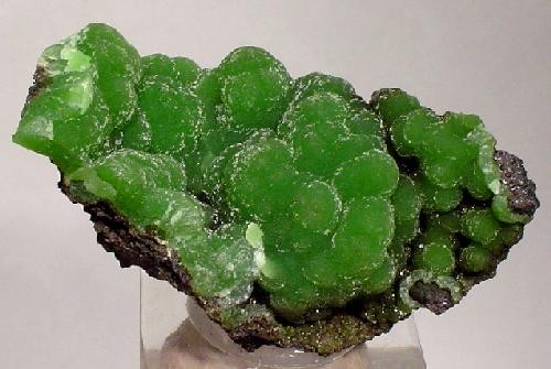 Arsendescloizite Locality: Ojuela Mine, Mapimí, Municipio de Mapimí, Durango, Mexico (Locality at ) Size: 4.6 x 2.5 x 2.5 cm. Arsendescloizite is an uncommon species from the famous Mina Ojuela, due to the rich green color and coming from the one-time, 1988 find. This aesthetic specimen has lustrous, translucent arsendescloizite botryoids filling the curved vug. Ex. Marty Zinn Collection, #2649.